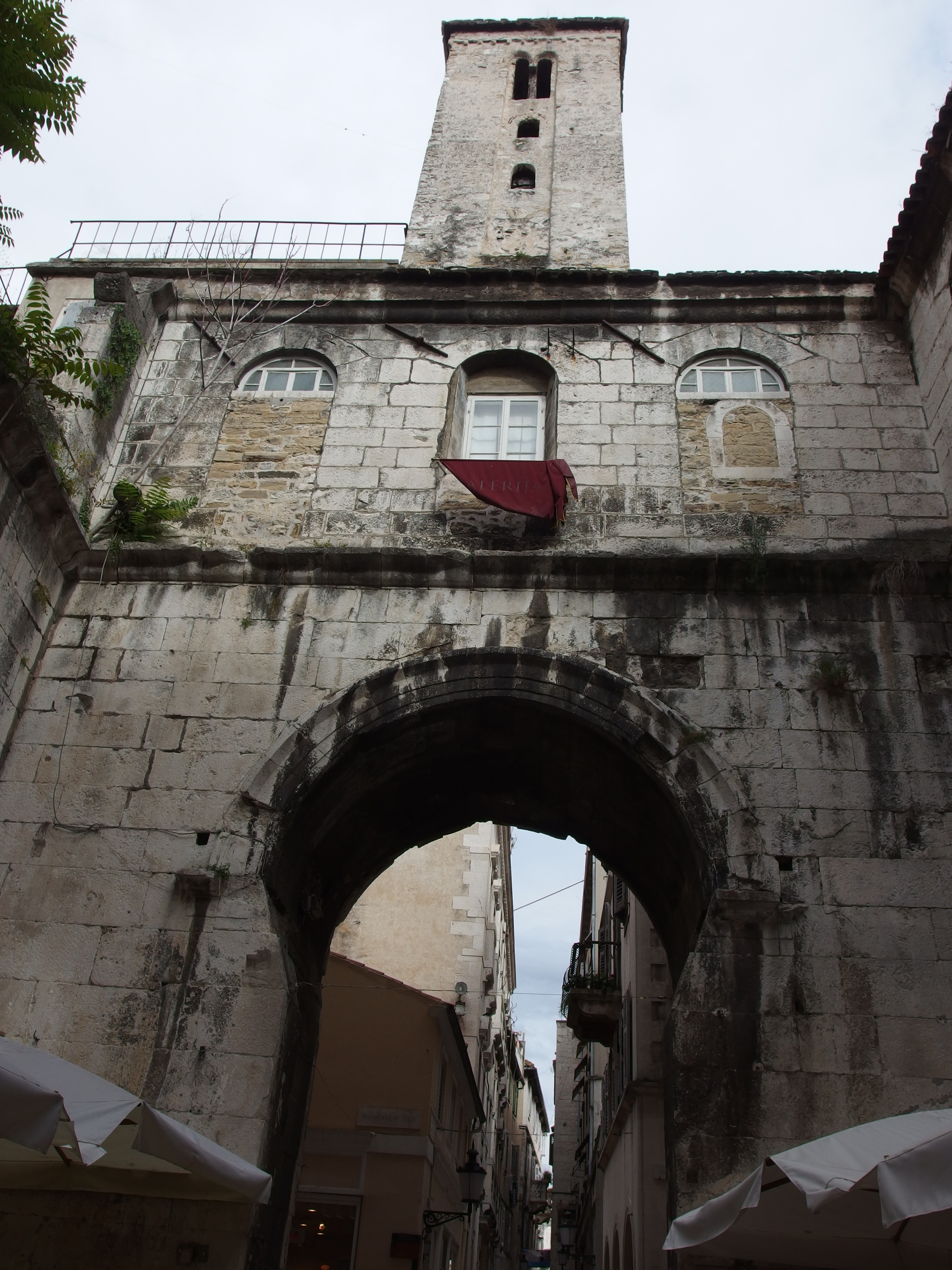 2013-06-03 in Split.